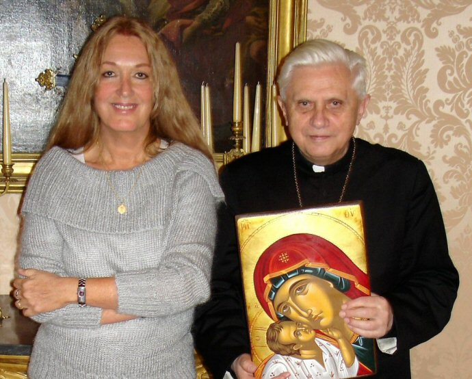 Photo of Vassula Ryden with Cardinal Ratzinger in the offices of the Congregation for the Doctrine of the Faith in the Vatican, taken on November 22, 2004.